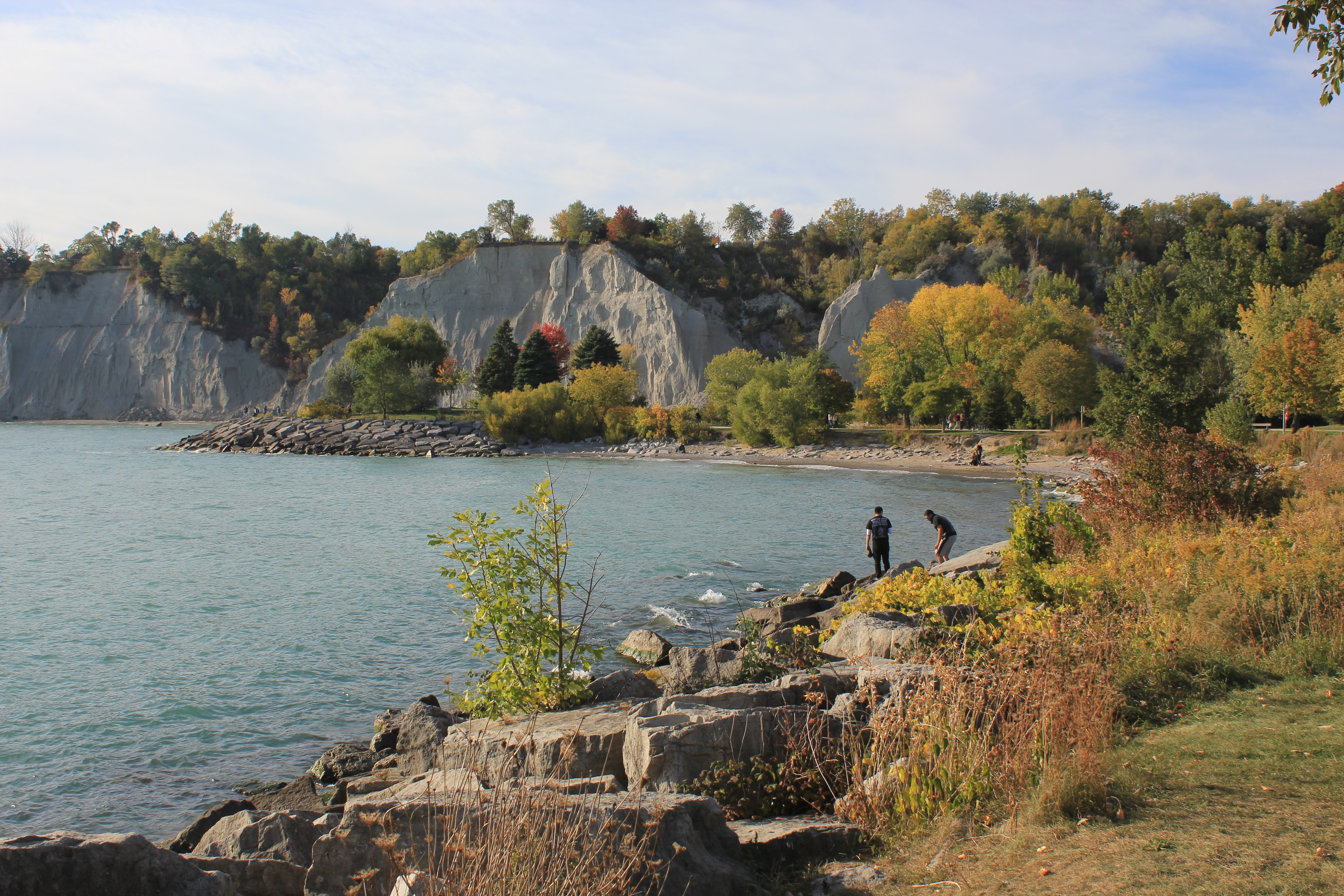 Scarborough Bluffs and Bluffers Park. Scarborough, Toronto, Ontario, Canada